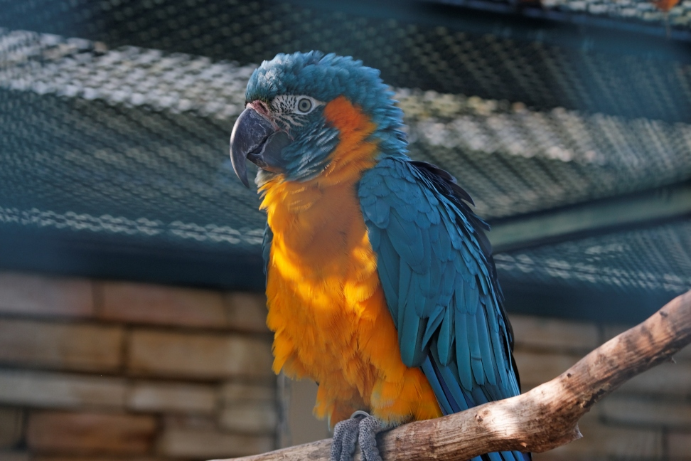 Blue-throated Macaw in an aviary.